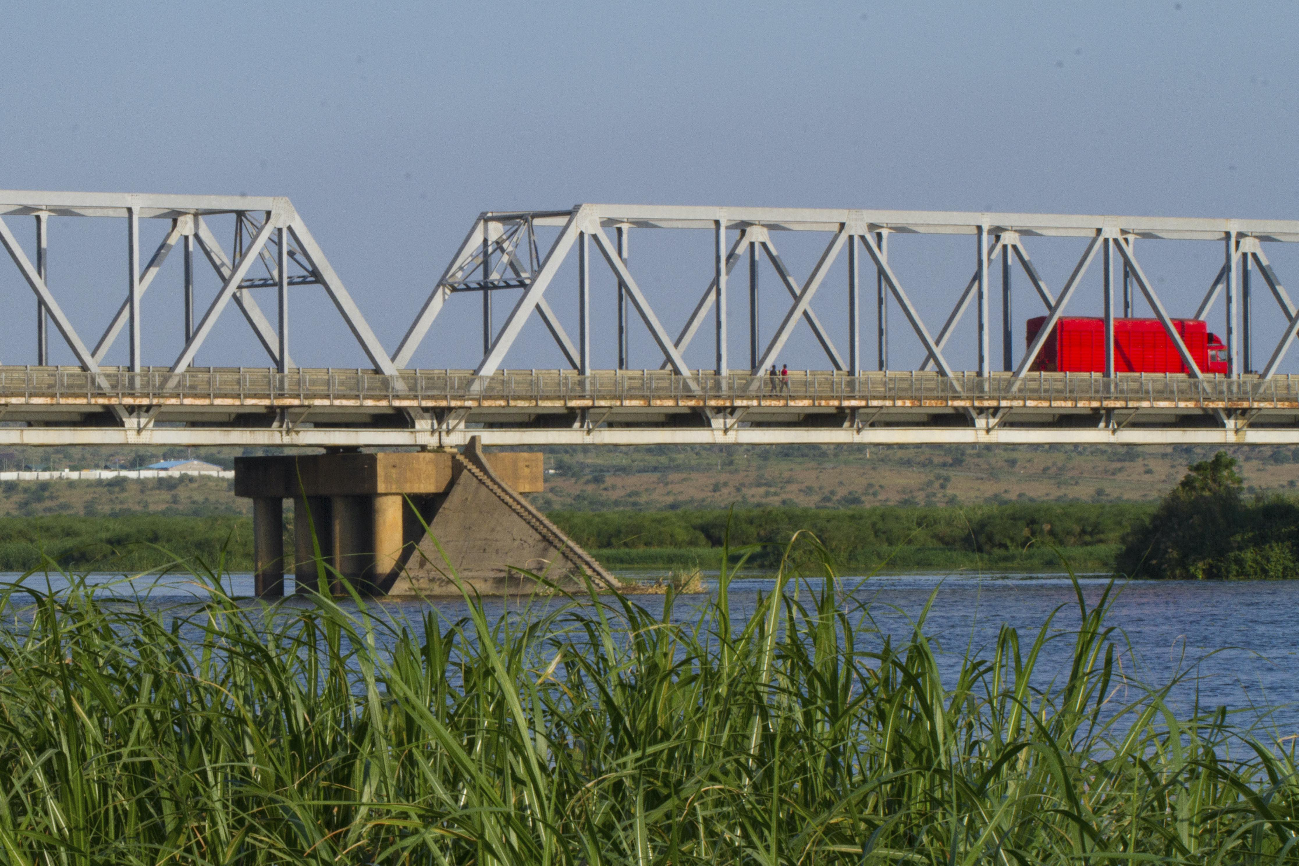 A truck and pedestrians cross the Albert Nile bridge in Northern Uganda This is an image with the theme "Africa on the Move or Transport" from: Uganda